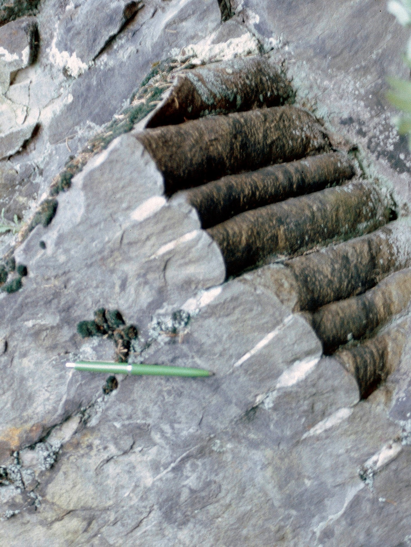 Mullions near Rouette in the Ardennes region of Belgium.